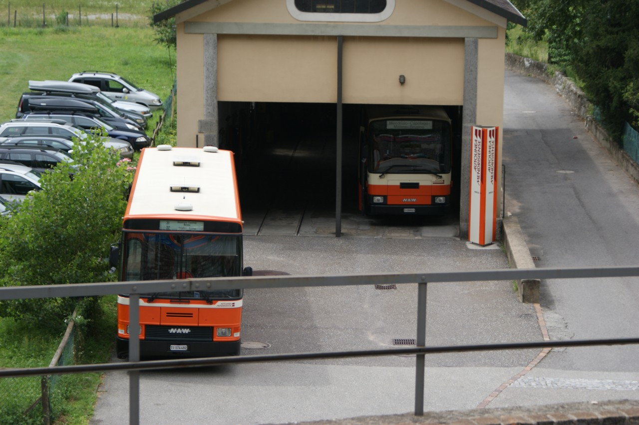 Meter gauge track in the depot of the former Mendrisio tramway, now in use as bus garage for the same line. NAW buses (reg. TI 174 482 and 209 023).